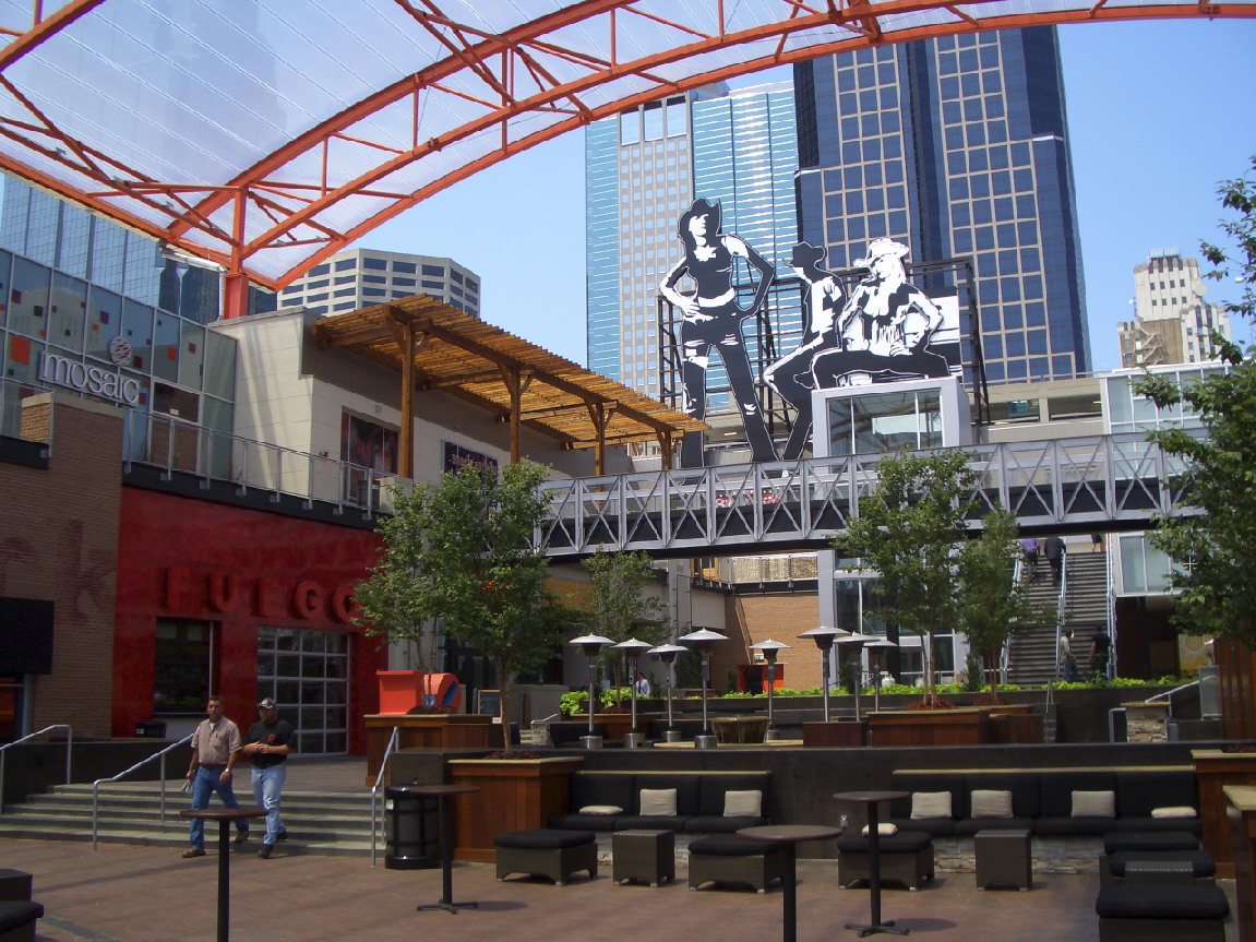 Kansas City Live! block in the Power & Light District, Kansas City, Missouri